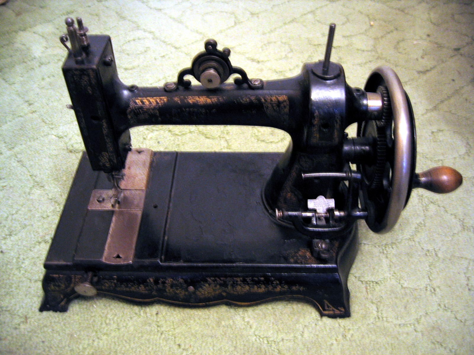 This White Peerless lockstitch dates to around 1885 and has eight U.S. Patent dates listed on the rear slide plate, the first being Mar 5 1872 the last Nov 26 1881. The tension discs are on top of the arm and the handcrank is directly driven.